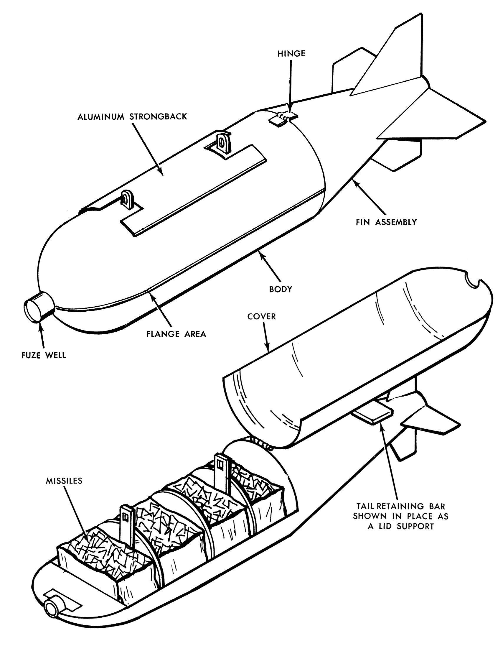 A diagram of a US Mk 44 Lazy Dog missile cluster dispensor - used during the Vietnam War.